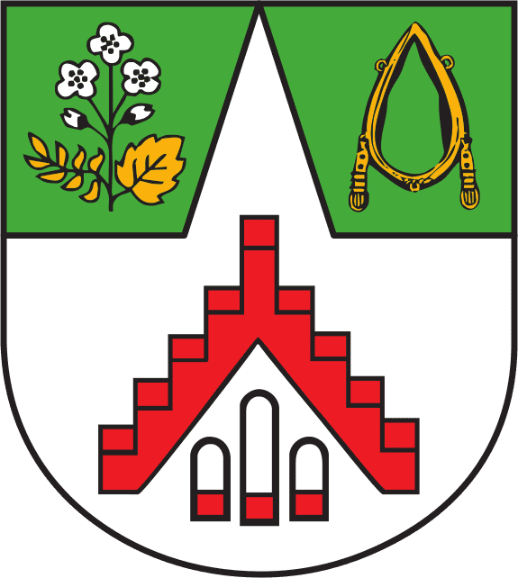 Coat of arms of the municipality Todesfelde in Schleswig-Holstein, Germany.